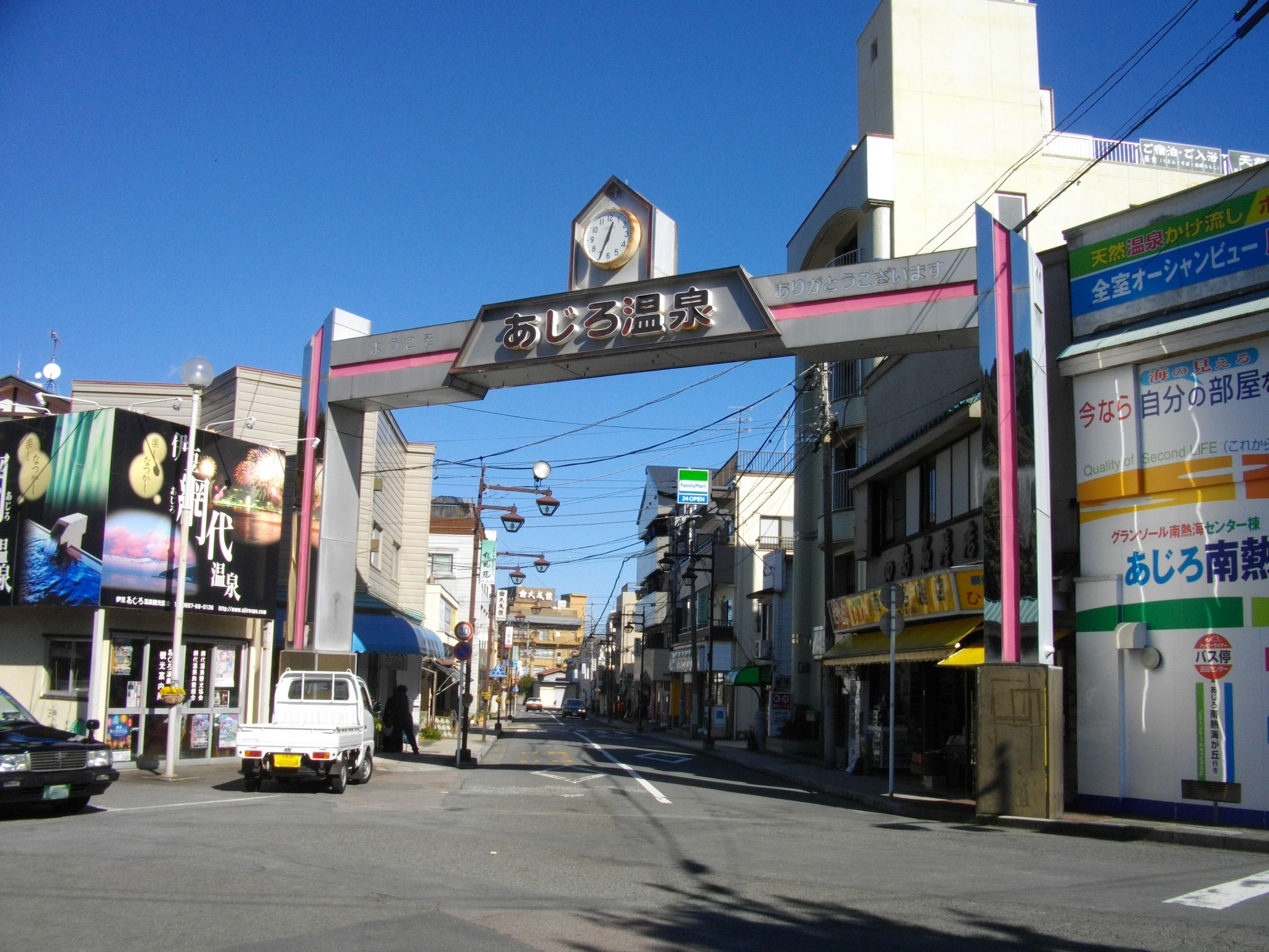 Entrance to Ajiro Onsen